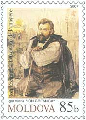 Stamp of Moldova; Ion Creangă